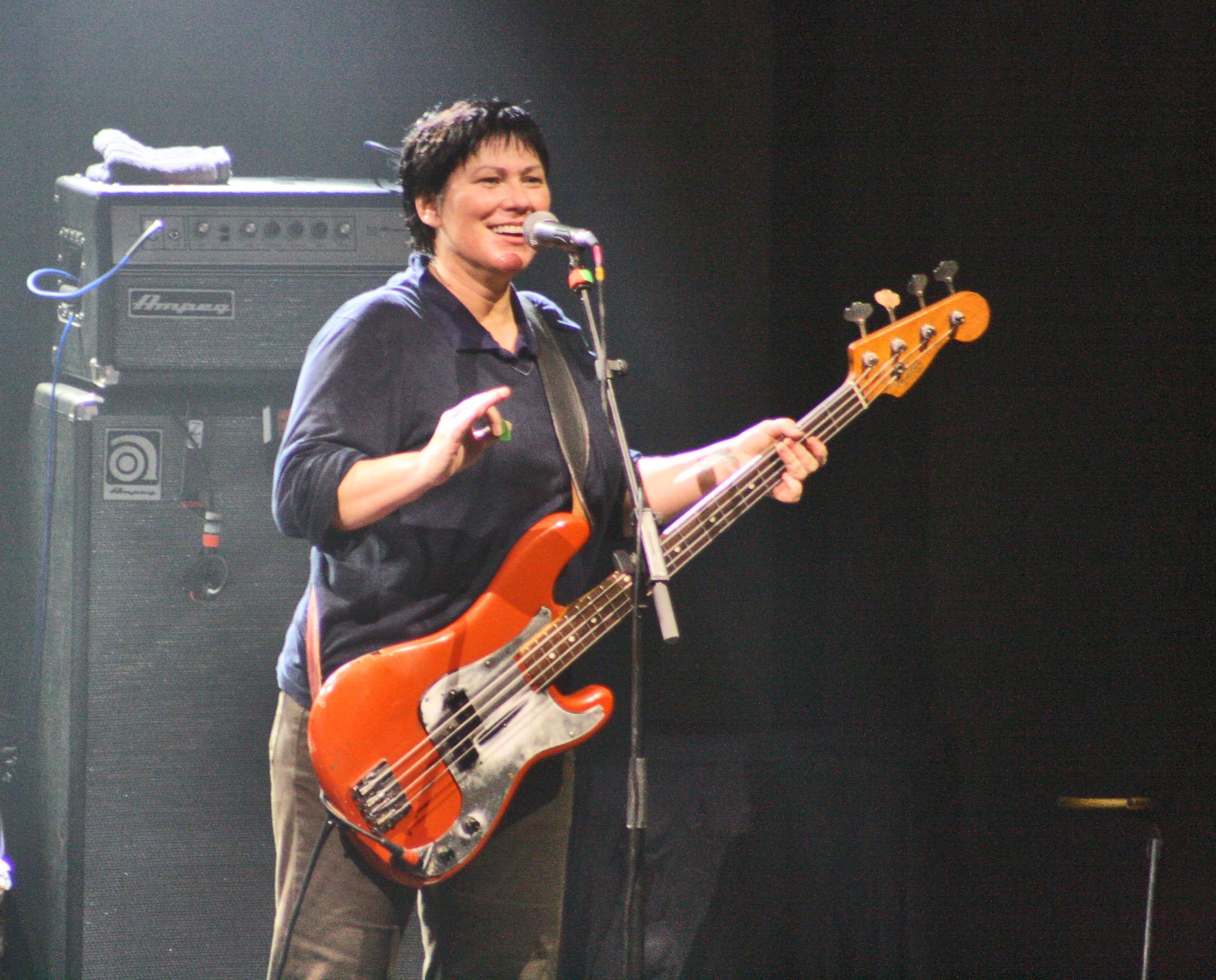 Kim Deal from Pixies at Teatro La Cúpula.